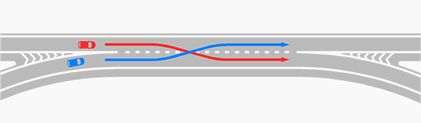 Chart of the weaving traffic